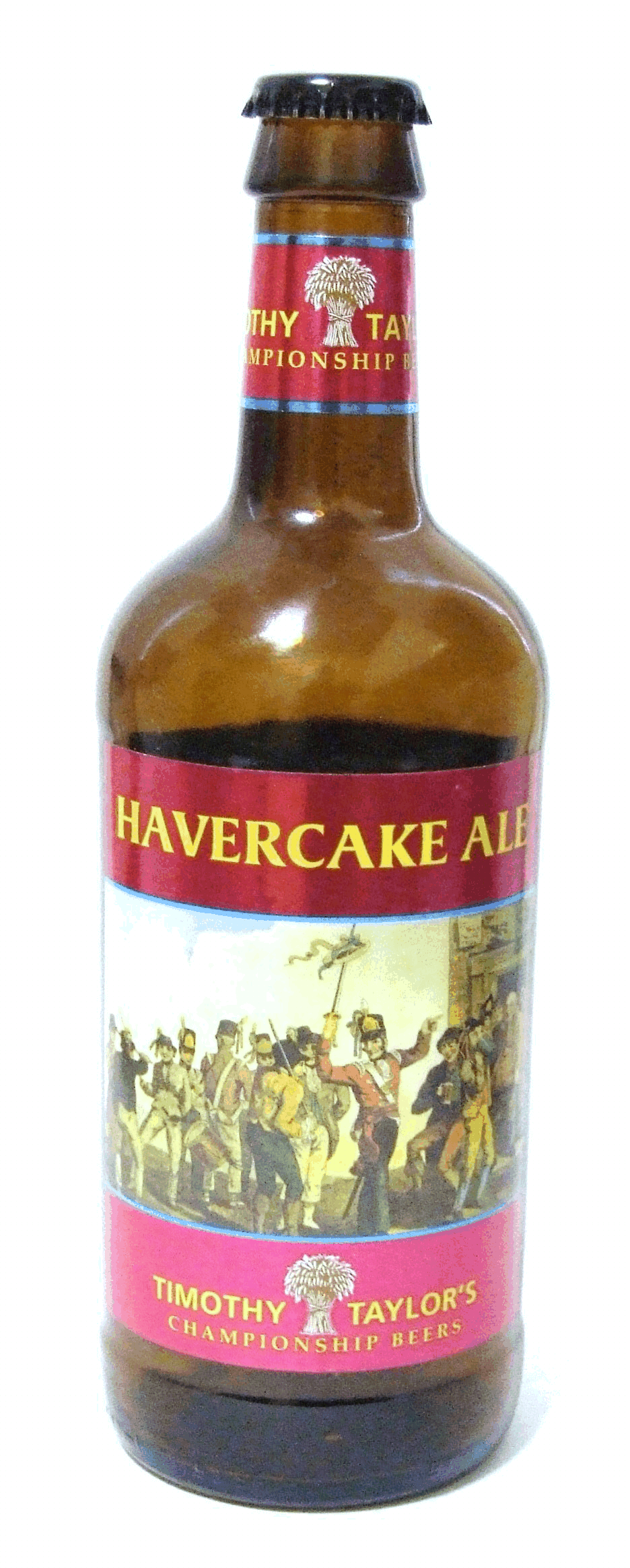 Photo image of an empty bottle of Tomothy Taylor Havercake Ale